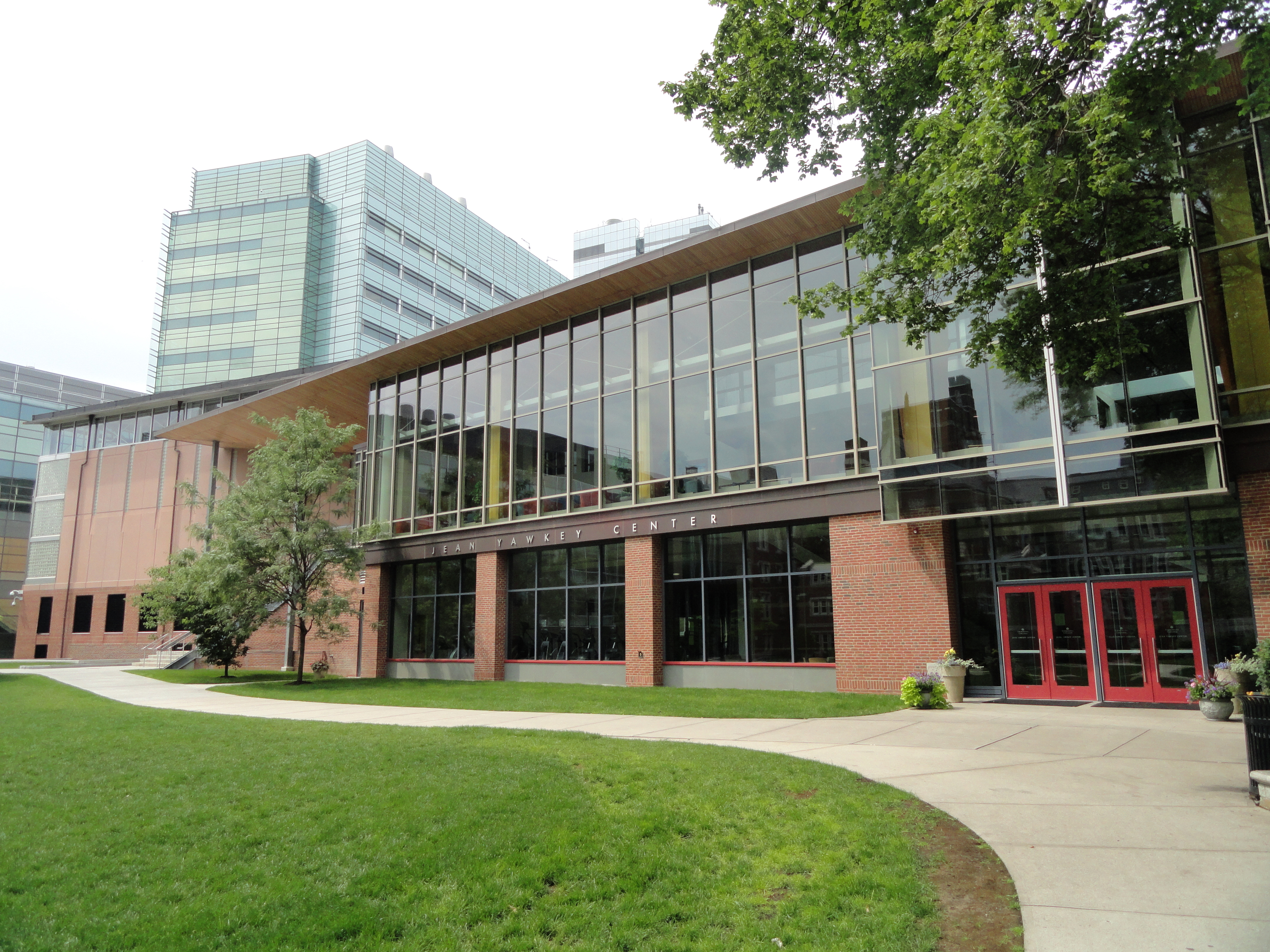 Emmanuel College, 400 The Fenway, Boston, Massachusetts, USA.